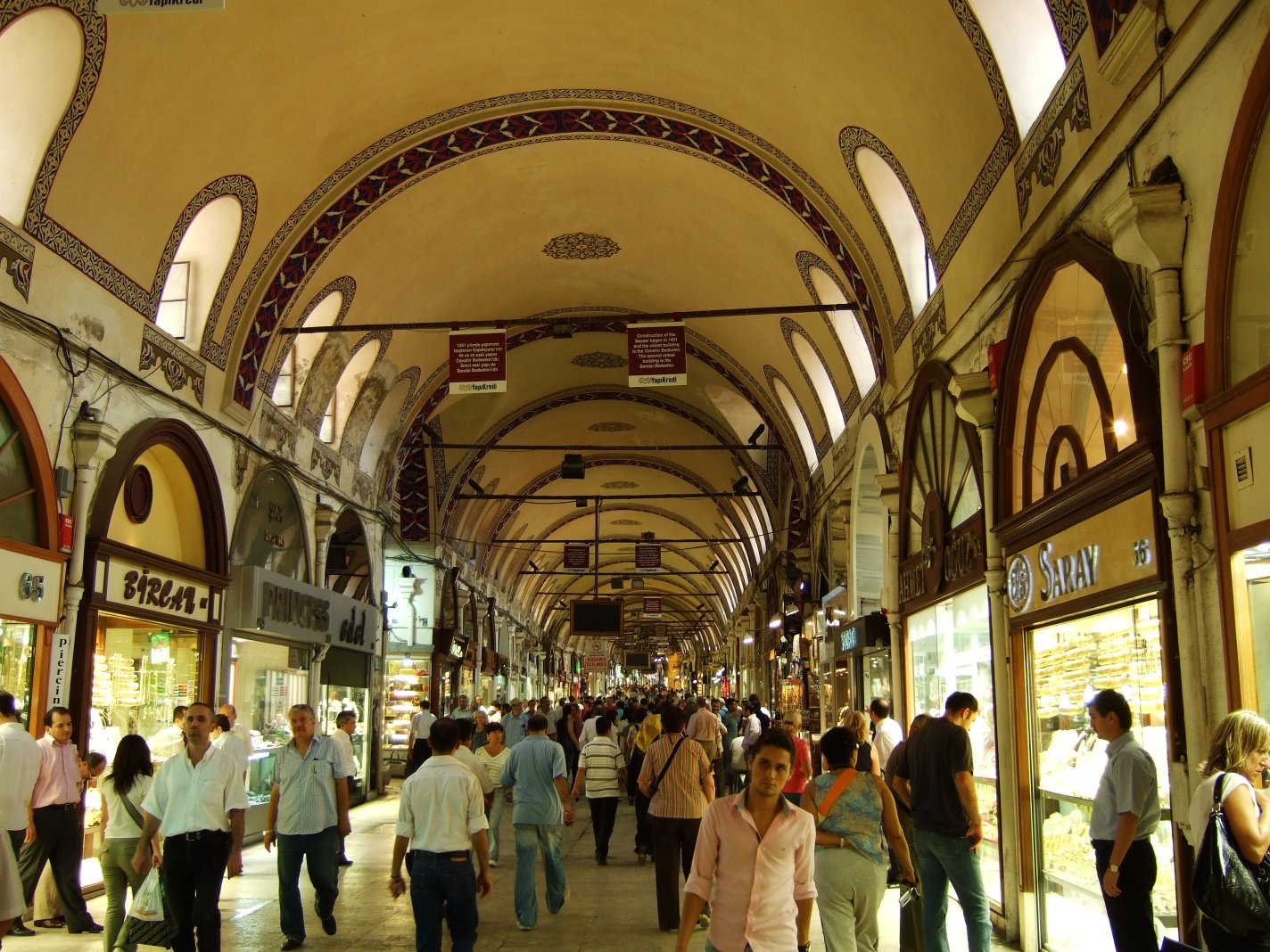 Kapalı Çarşı aka Grand Bazaar in Istanbul - main archway